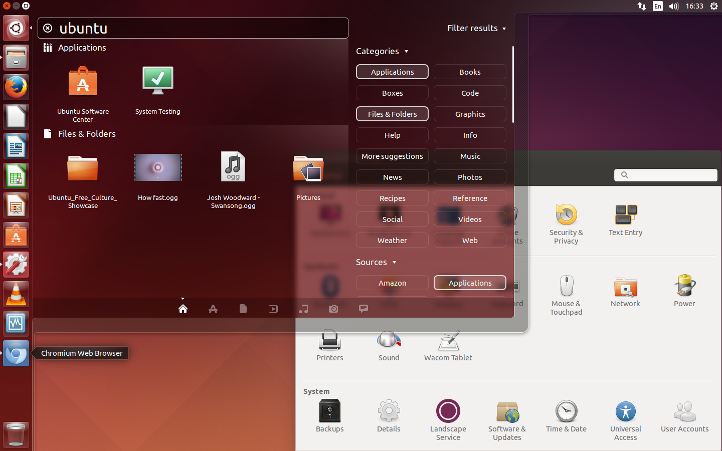 Screenshot of Ubuntu 14.10 Desktop with Unity. Compiled from various visual elements of free software.